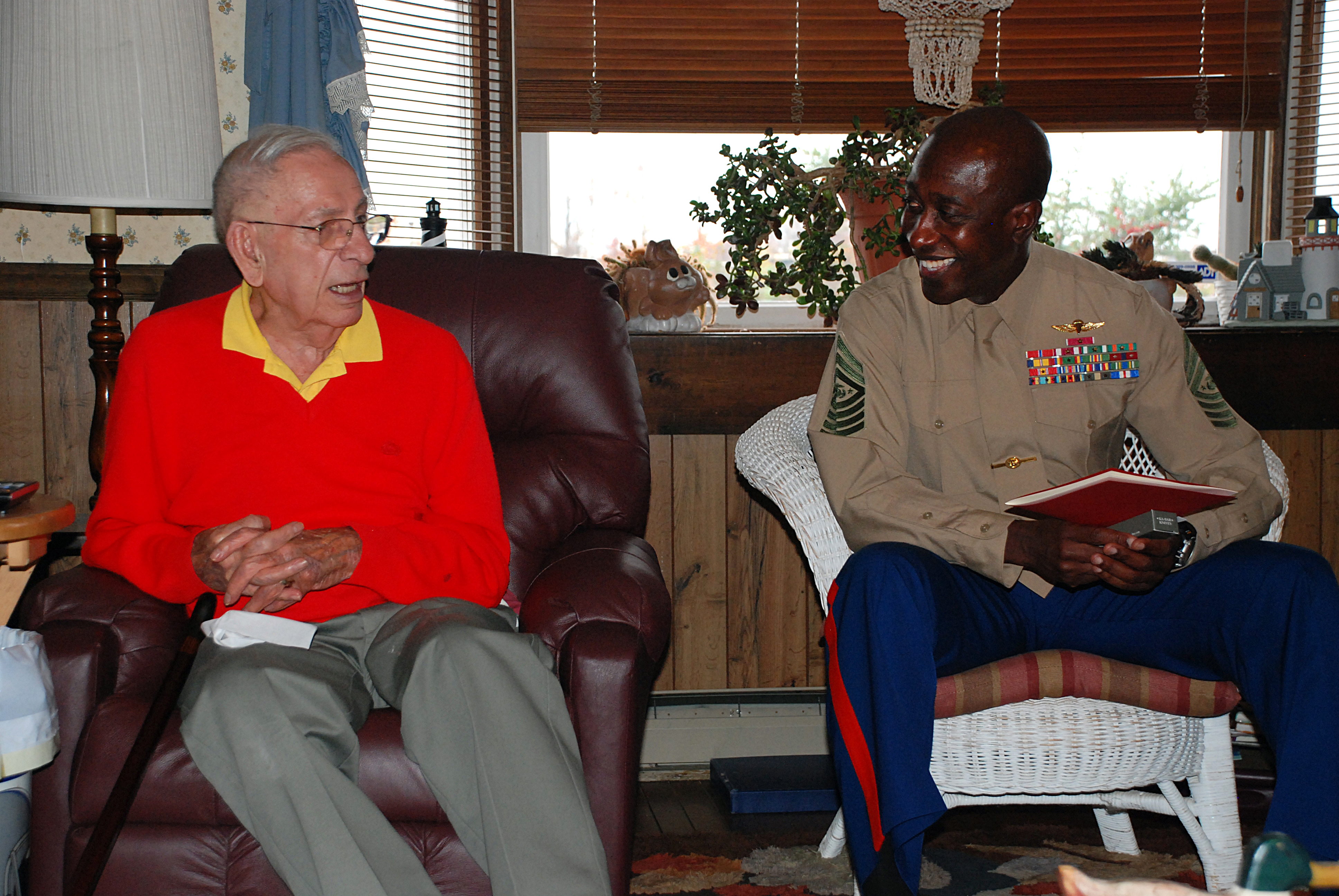 Sgt. Maj. Carlton W. Kent, 16th sergeant major of the Marine Corps, shares a laugh with retired Sgt. Maj. Henry H. Black, the 7th sergeant major of the Marine Corps, at Black’s home Nov. 10 in Fredericksburg, Va. Kent, along with eight fellow Marines, made the trip to celebrate the Corps’ 234th birthday with Black.